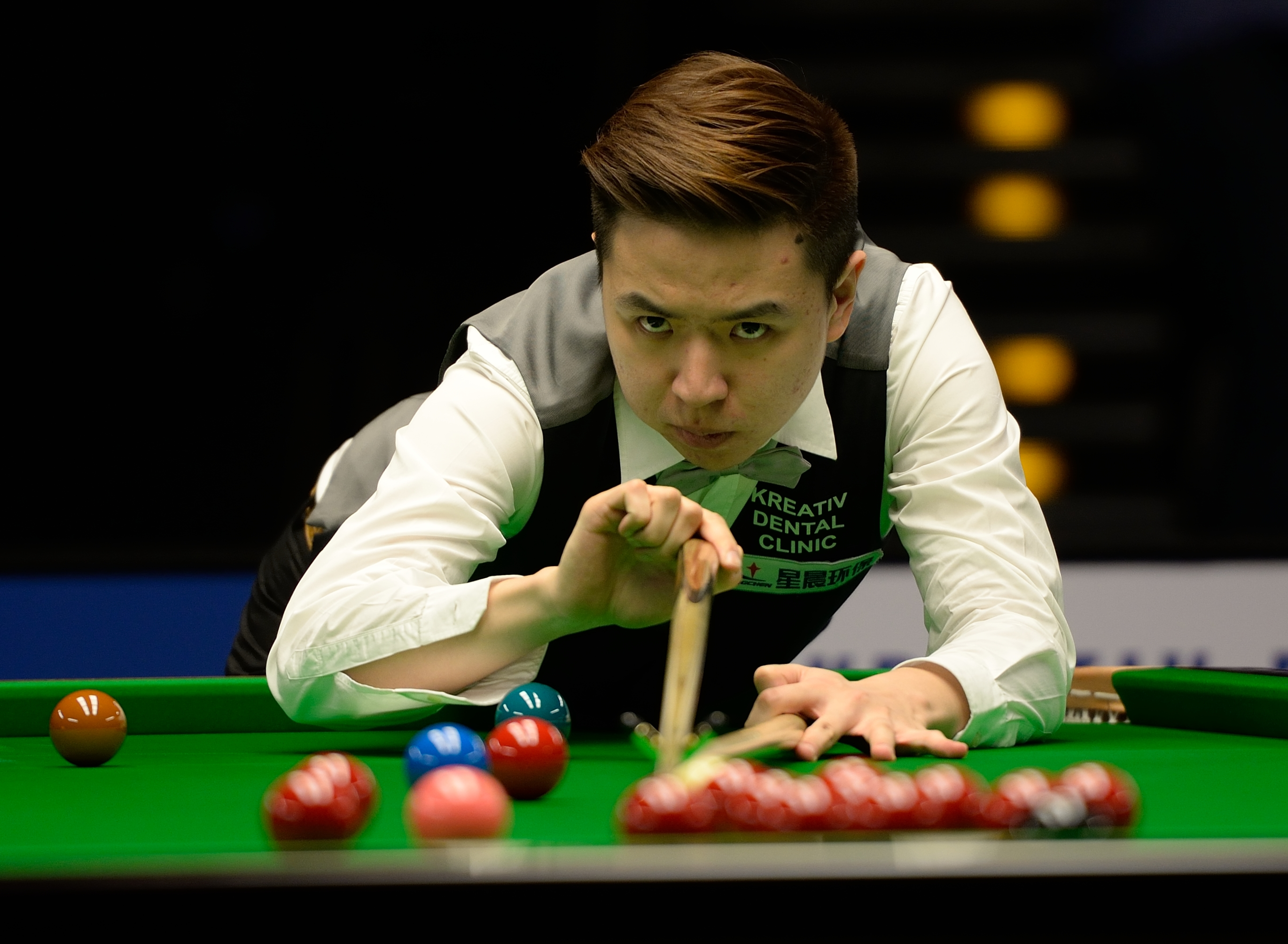 Picture taken in Berlin during the Snooker German Masters in 2015. Xiao Guodong.